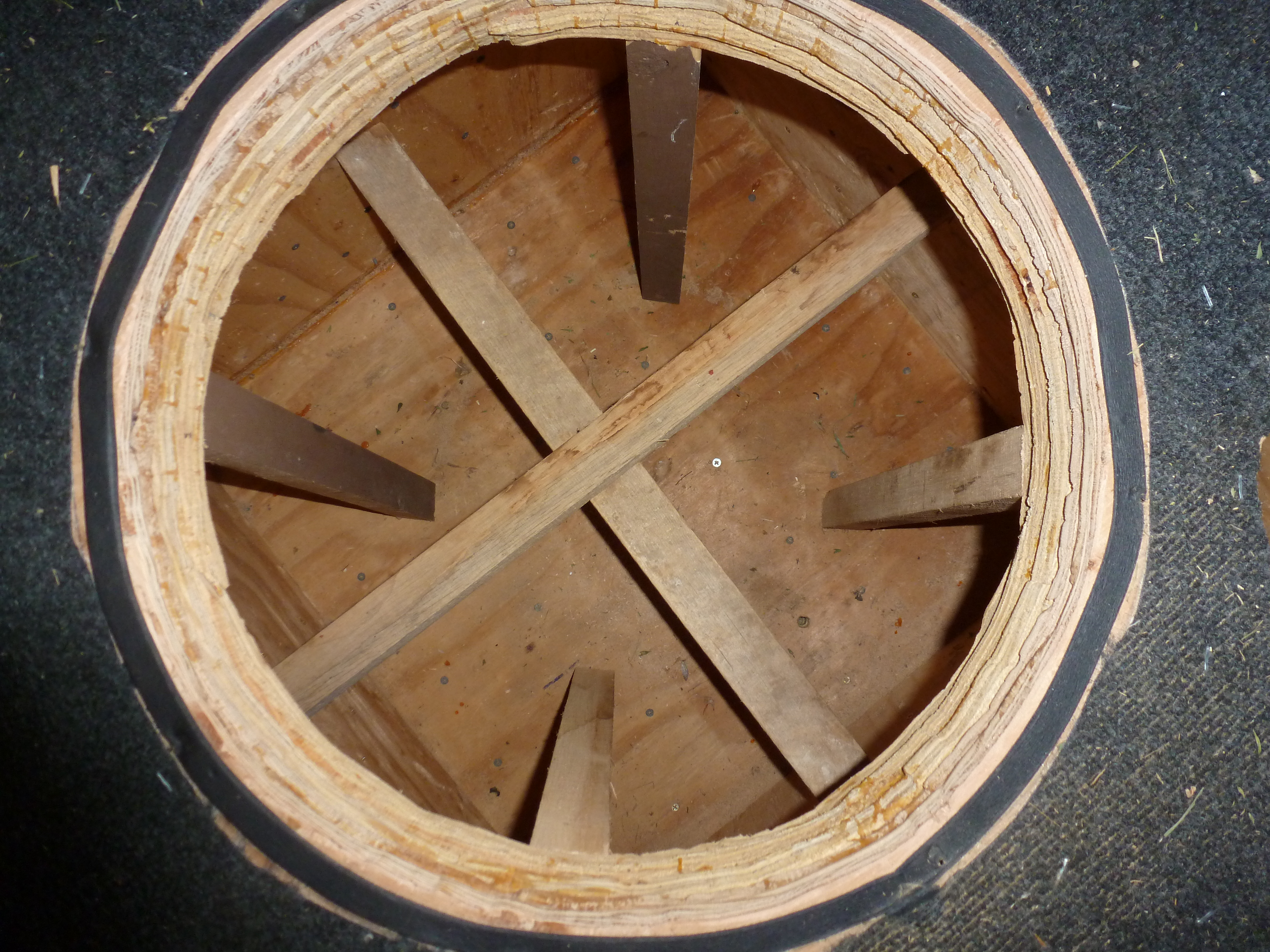 A subwoofer loudspeaker enclosure is braced in "all" directions, front to back and side and top to bottom. It is only about 8 ct ft but uses four layers of plywood for 2.5" thickness and 3" baffle to virtually eliminate cabinet flex and vibration. Fits an 18 inch driver and is meant to play low enough for plywood modes to not be activated. Enclosure is crudely built.